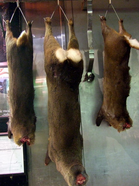 Venison in the Covered Market. Some of these deer are shot on local estates.